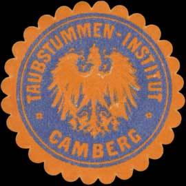 Sealing stamp Title: Taubstummen-Institut Camberg Description: rosa, blau Place: Camberg size: 4 cm